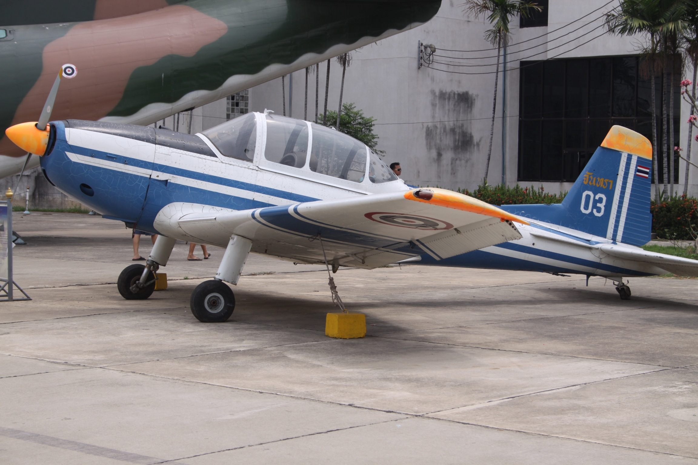 At Don Mueang International Airport